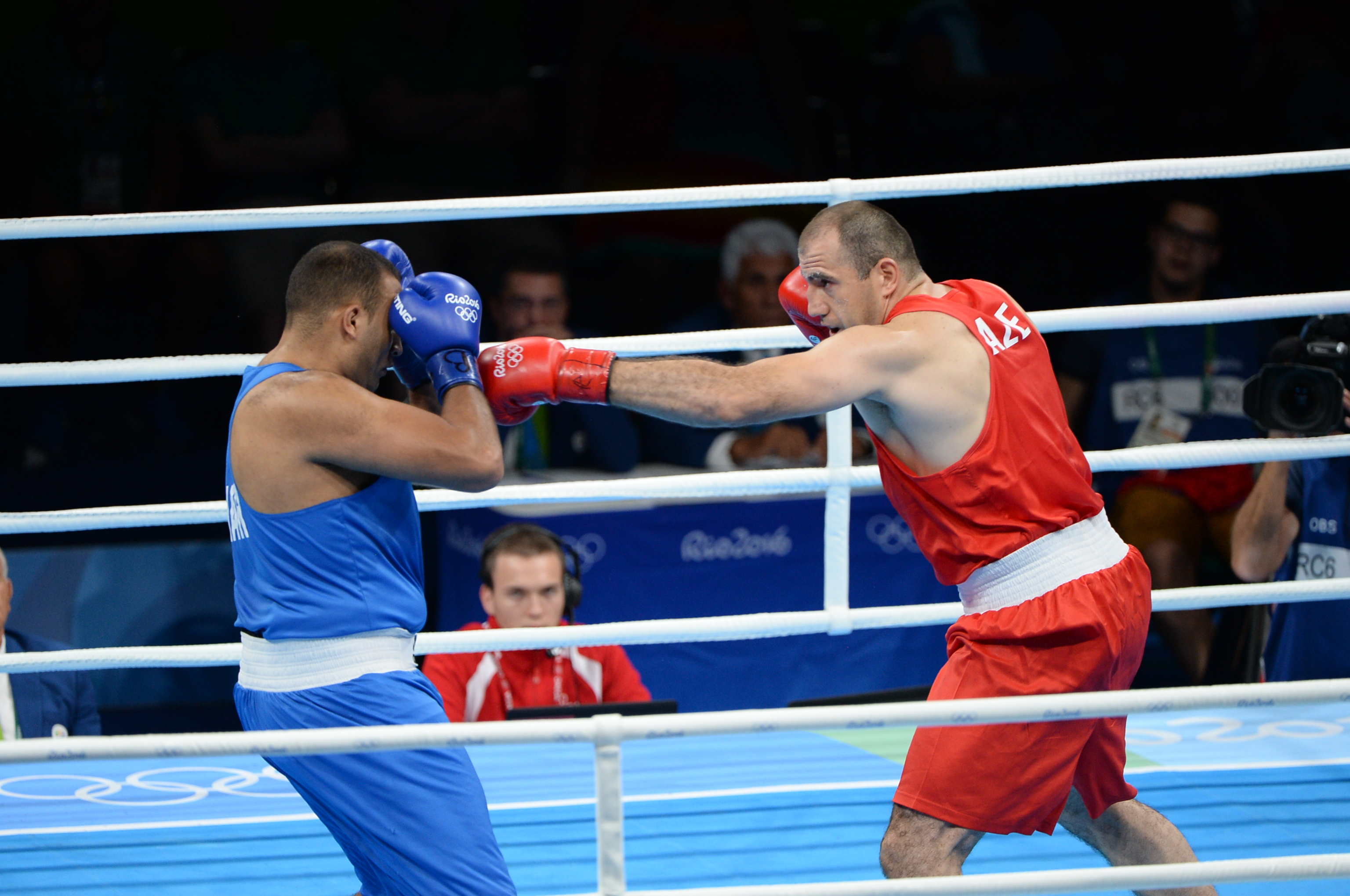 Boxing at the 2016 Summer Olympics, Majidov vs Arjaoui